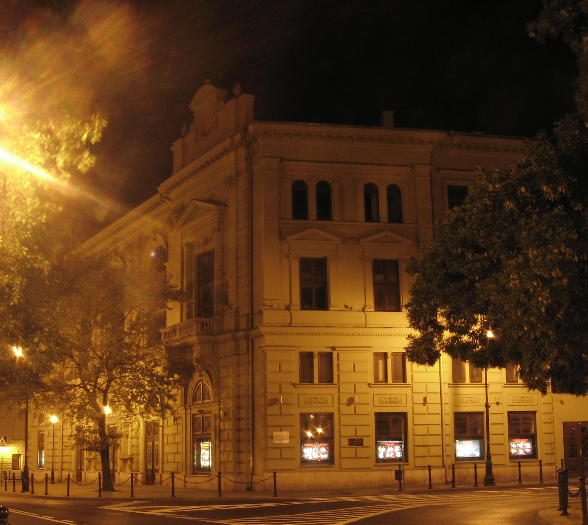 Juliusz Osterwa Theatre in Lublin